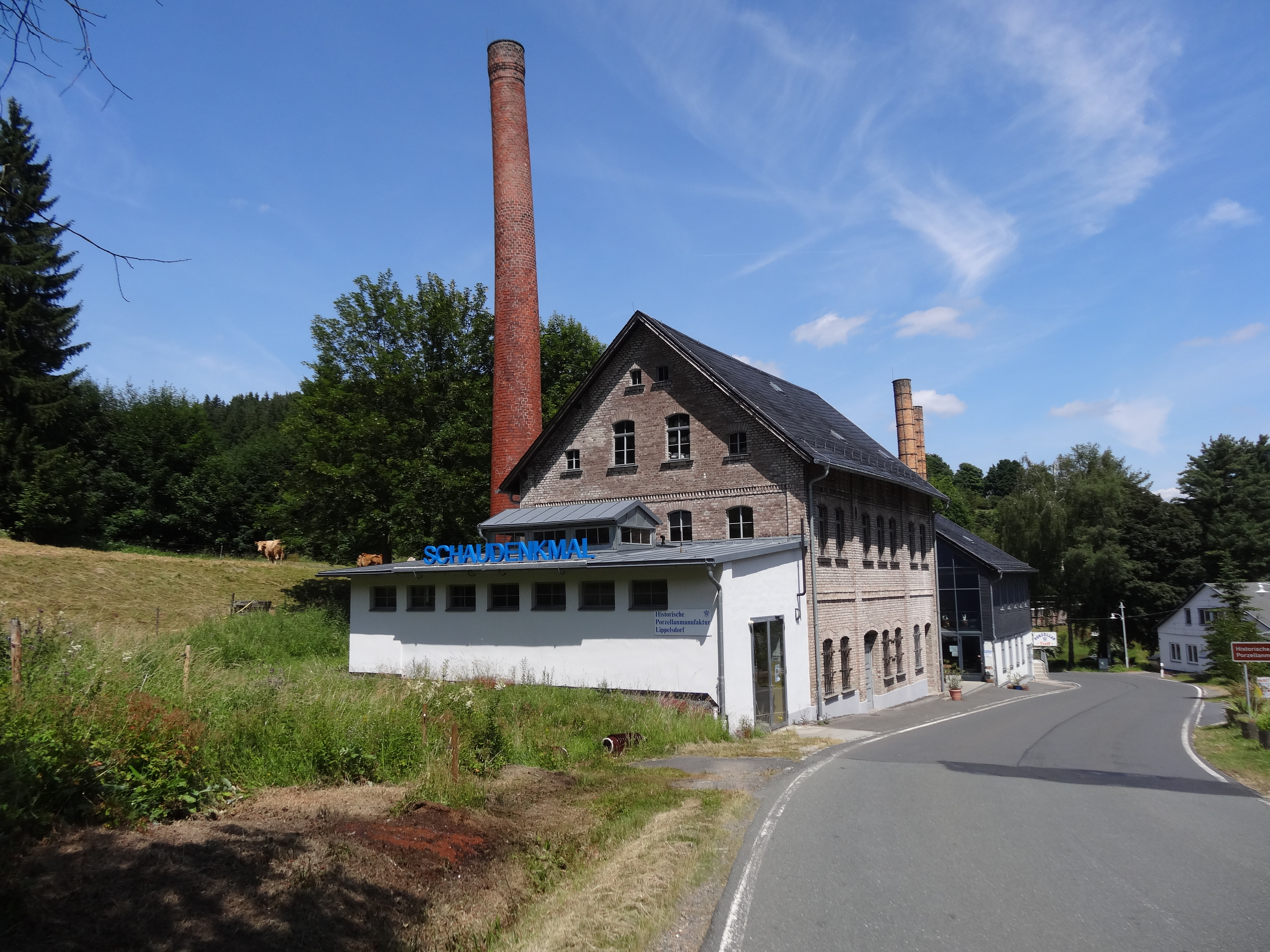 Historic china fabric in Lippelsdorf, Thuringia, Germany